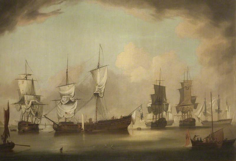 TITLE: The Squadrons of Thurot and Elliot in Ramsey Bay, 1760. (c) Manx National Heritage; Supplied by The Public Catalogue Foundation (The scene in Ramsey Bay after the battle between the English and French squadrons, enacted off the Manx coast in 1760.)